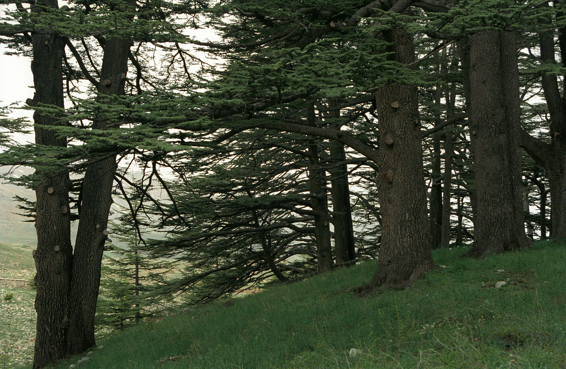 Cedars of God